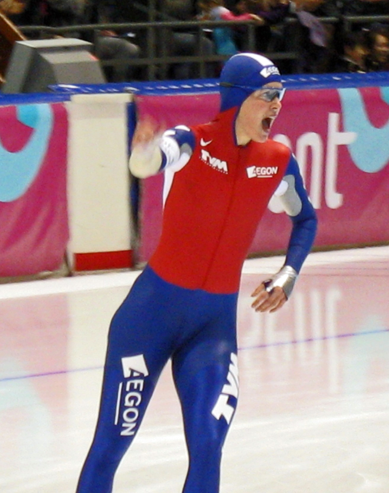 Marit Leenstra after the Ladies Team Pursuit World Cup Heerenveen nov 2008